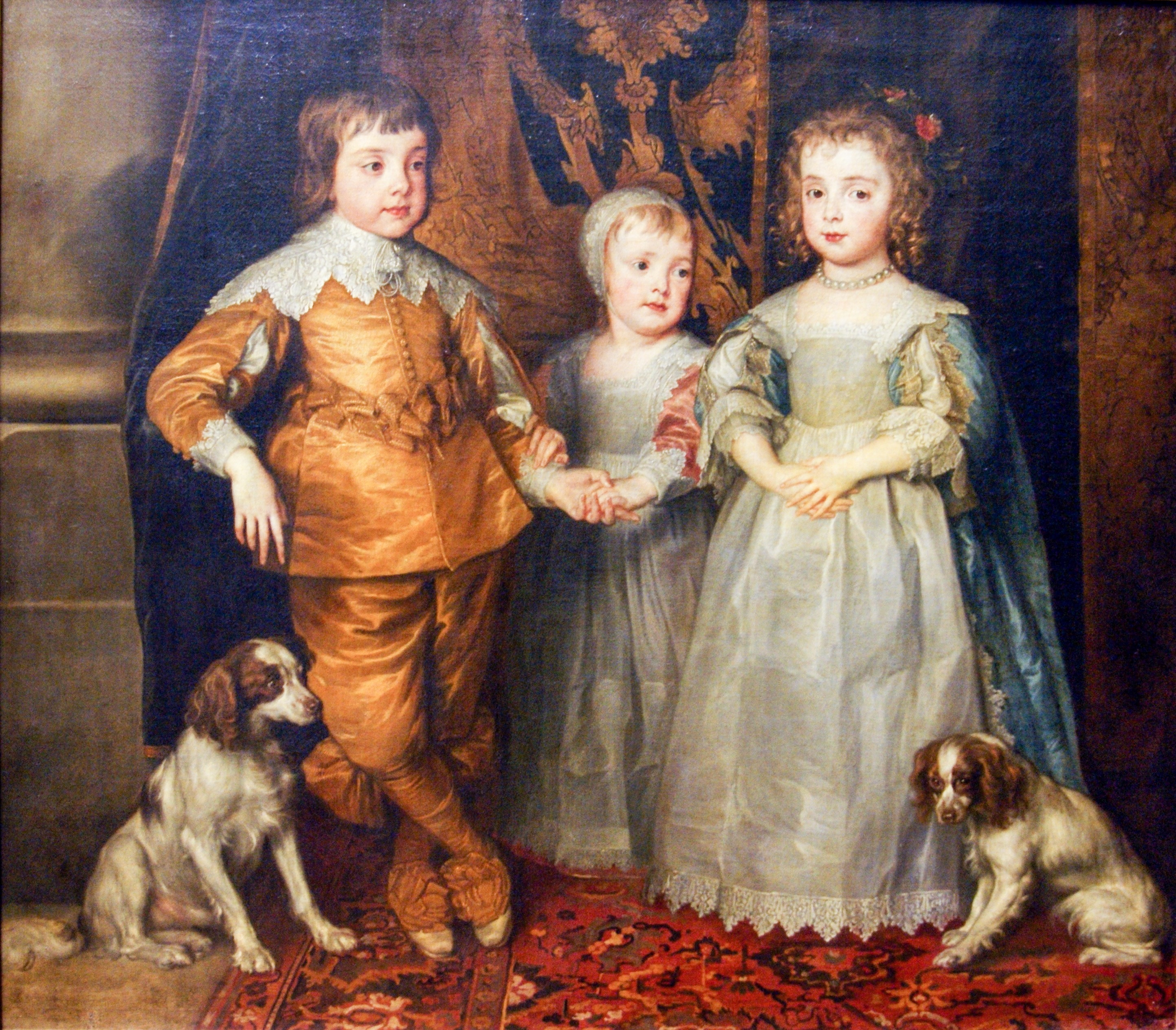 Franz Wenzel Schwarz (1842-1919)- "Die Kinder Charles I".